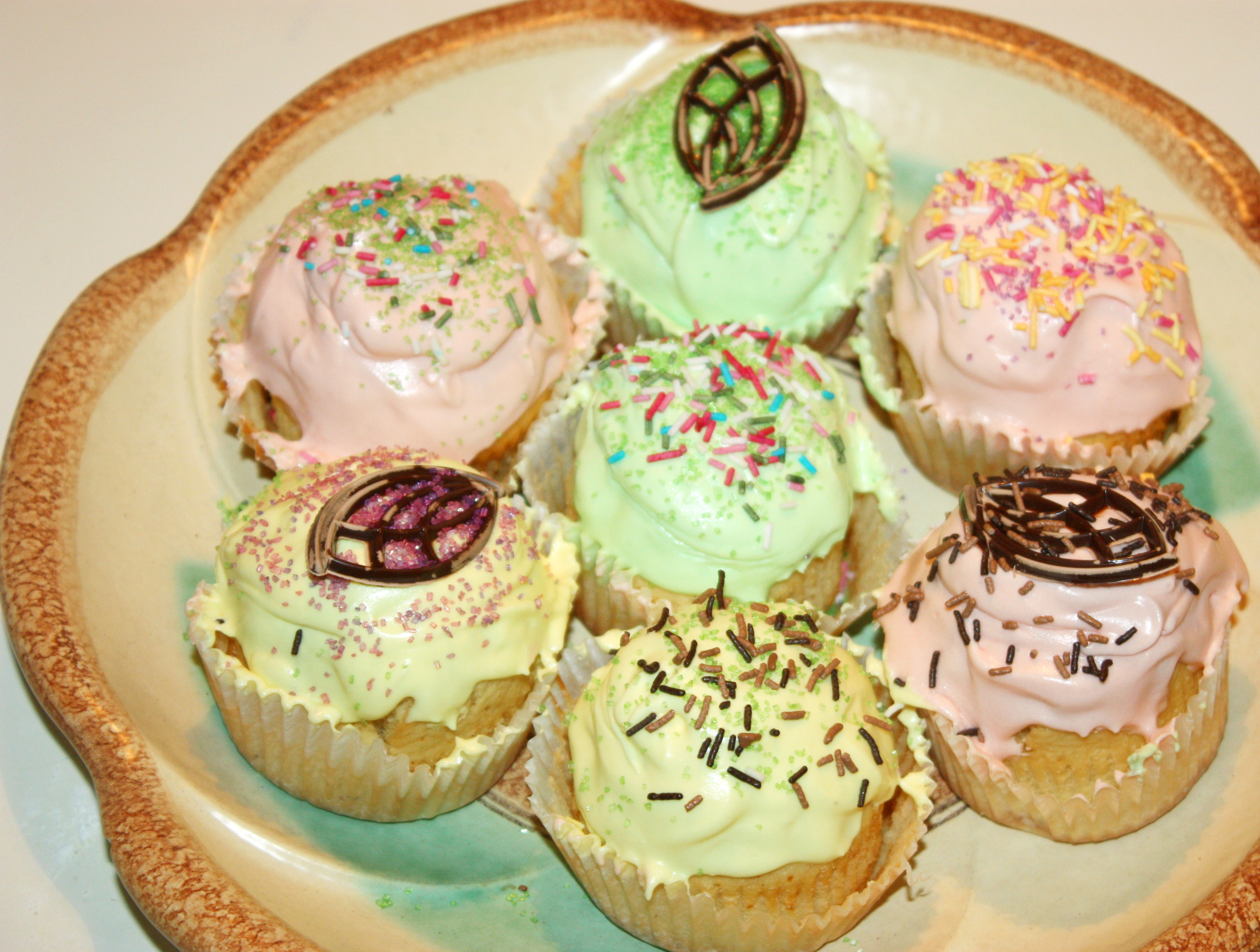 Cupcake